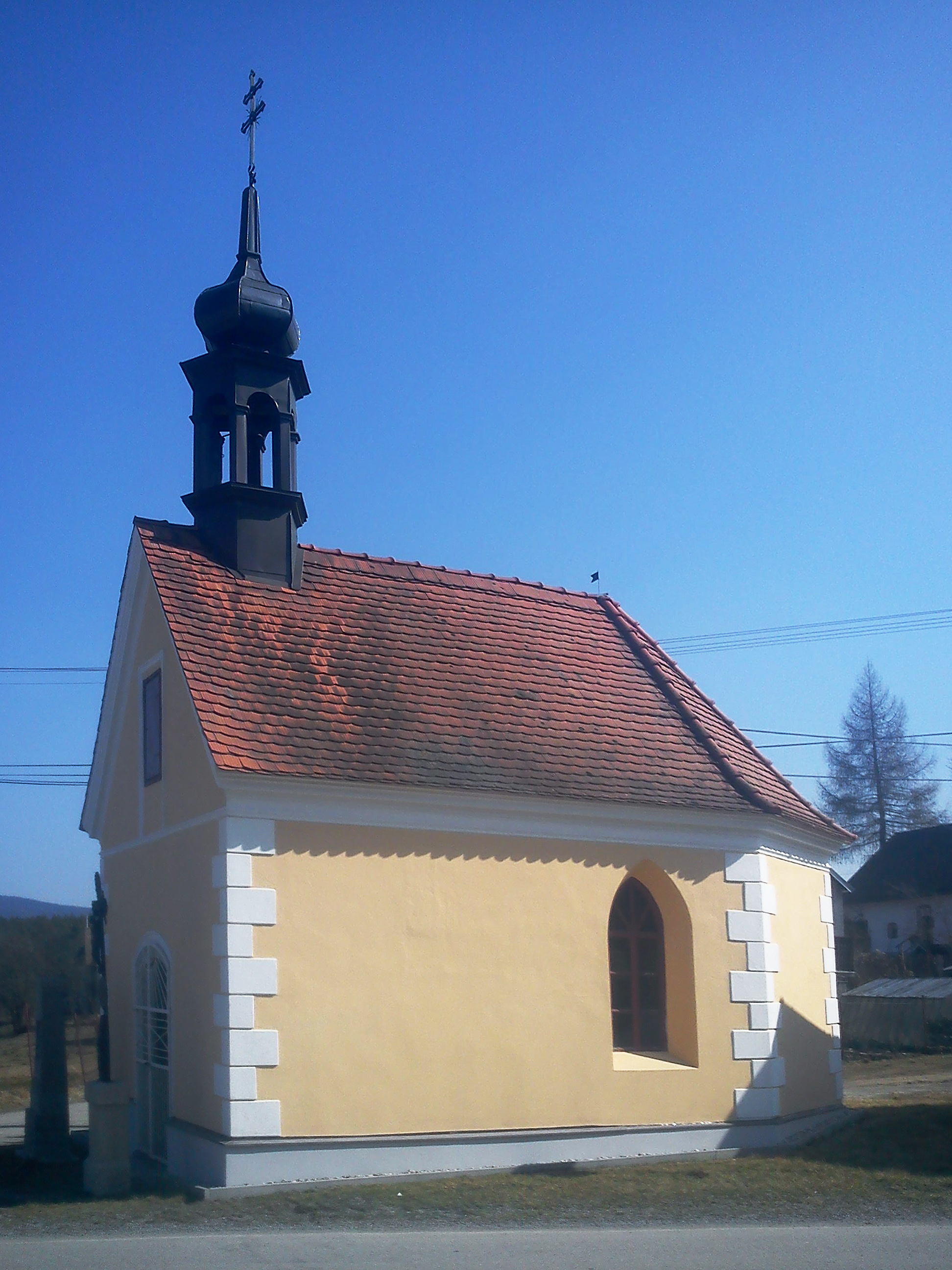 Chapel in the village of Pořešinec, part of the town of Kaplice, South Bohemian Region, Czech Republic.